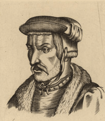 Heinrich Cornelius Agrippa von Nettesheim (1486–1535) was a German physician and scholar.